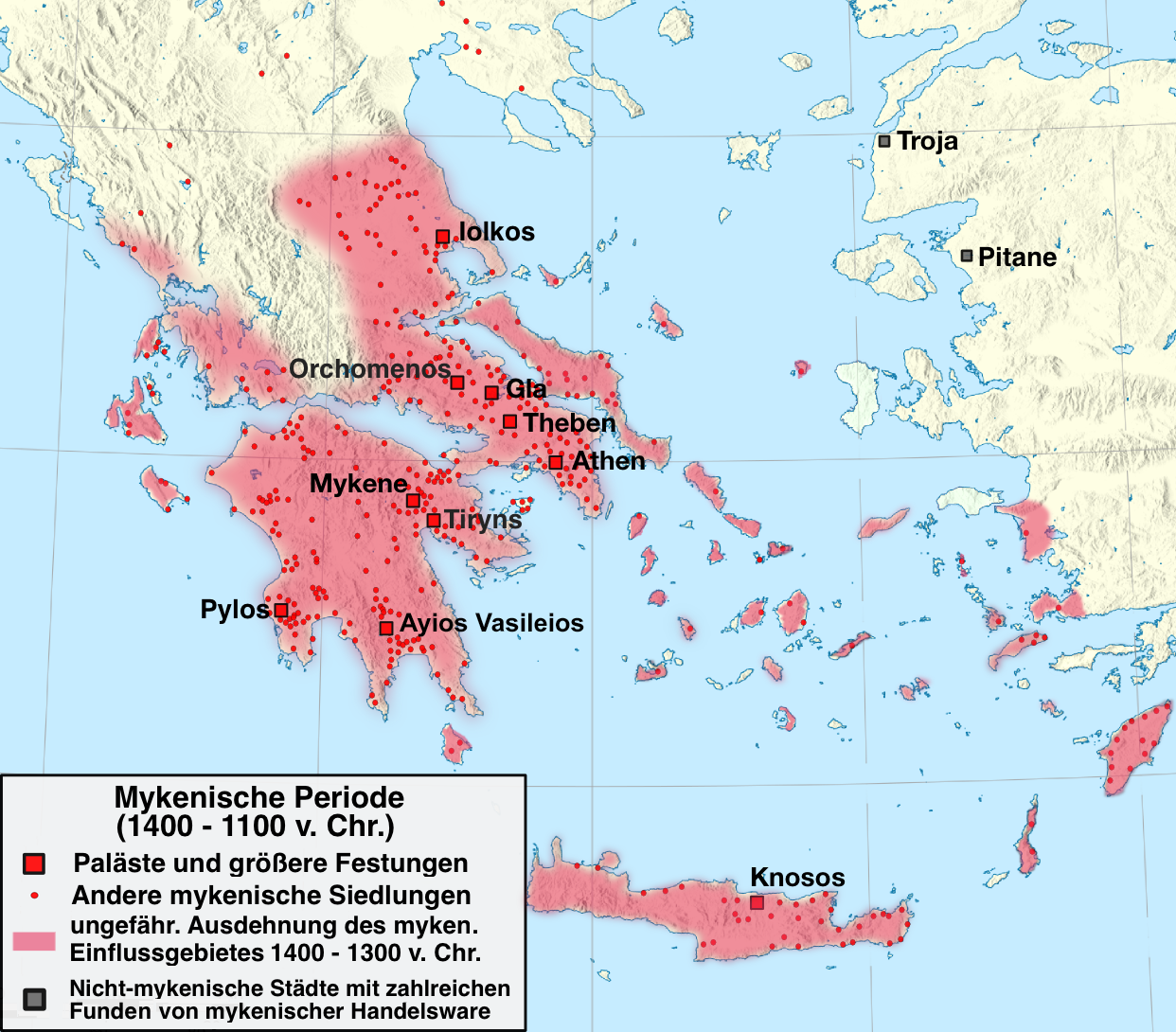 Map of Mycenaean Greece 1400-1200 BC: Palaces, main cities and other settlements.